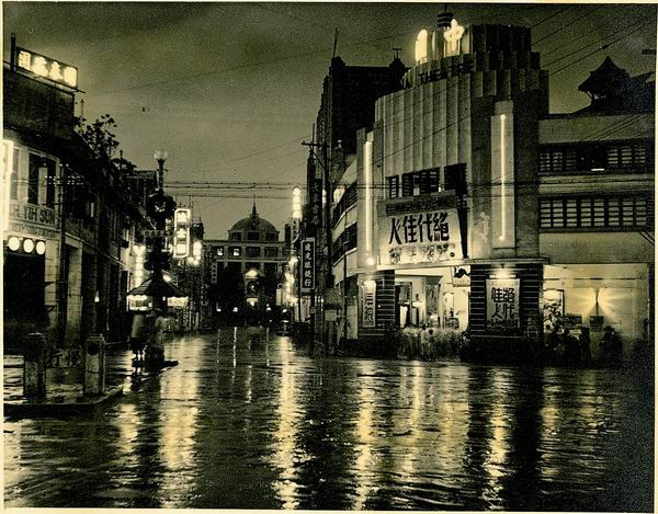 Wing Hon Road, now Beijing Rd., in Canton, Kwangtung, China.